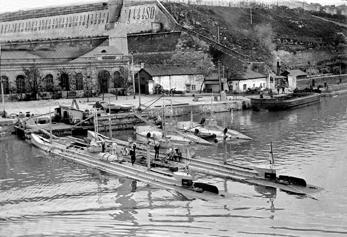 The Imperial Russian submarines Losos, Sudak, Karp and Karas